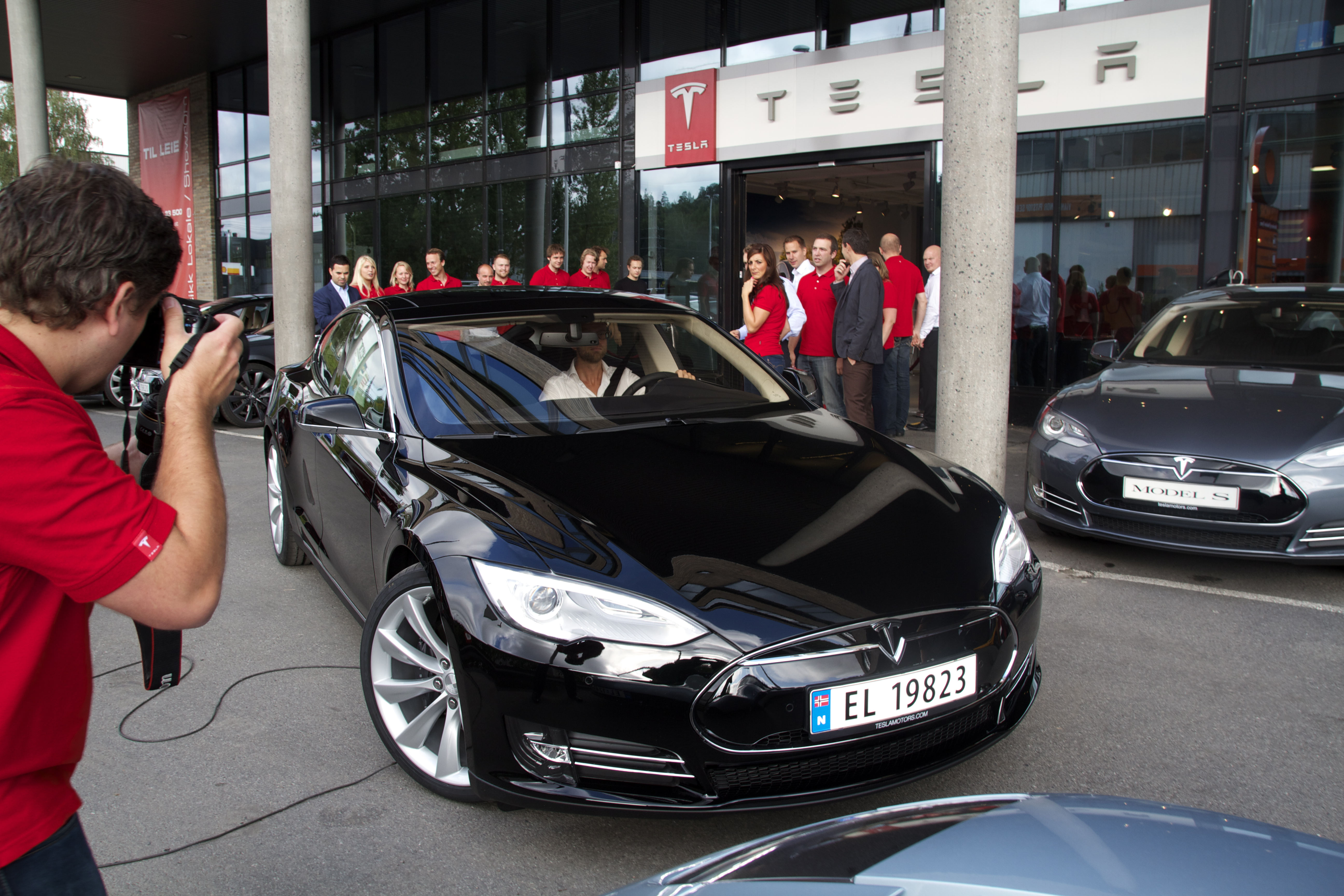 Conservative Høyres Nikolai Astrup takes delivery of its Tesla Model S in Oslo, Norway, at the event organized by Tesla Motors to make the first European deliveries